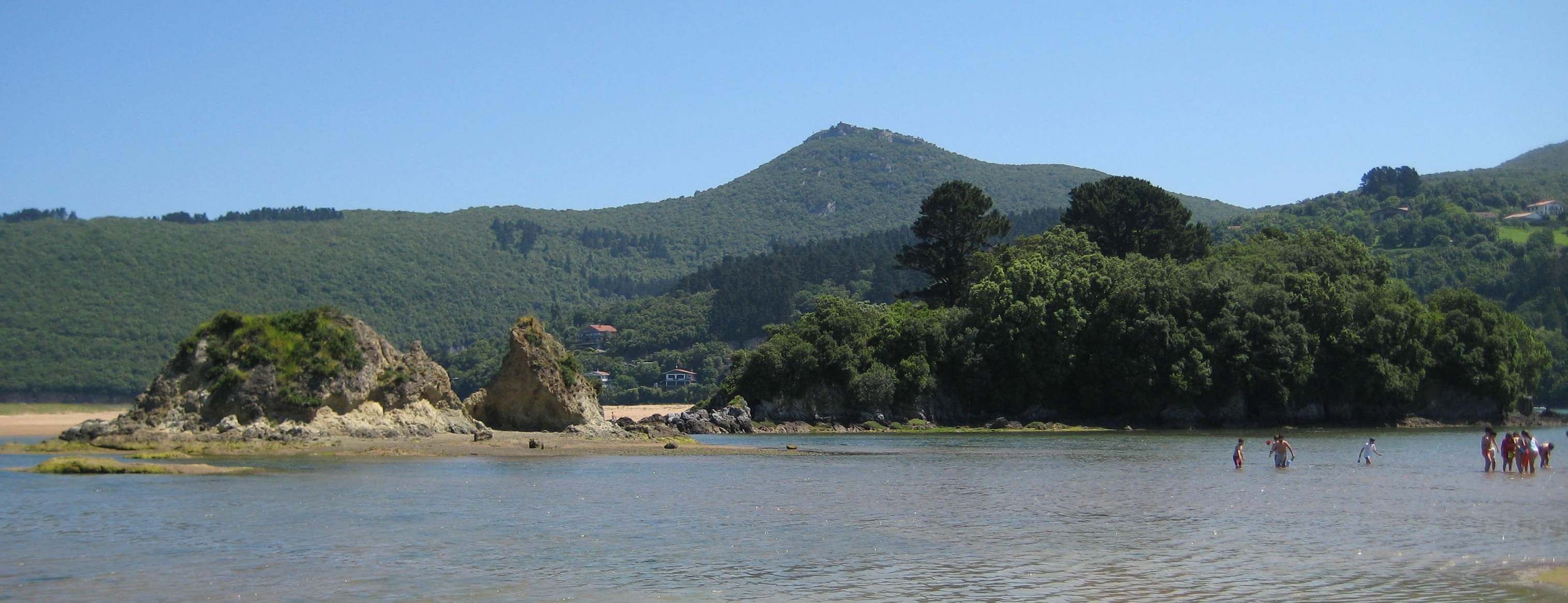 Island of Sandindere in Pedernales - Sukarrieta.